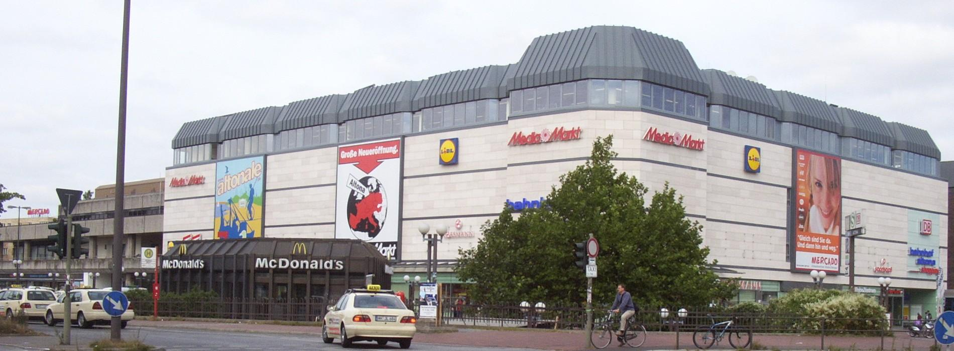 Outside view of Hamburg-Altona railway station